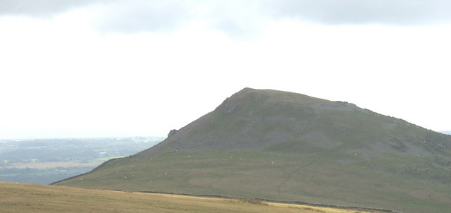 The Iron Age fort of Pen y Gaer, north Wales, from the north